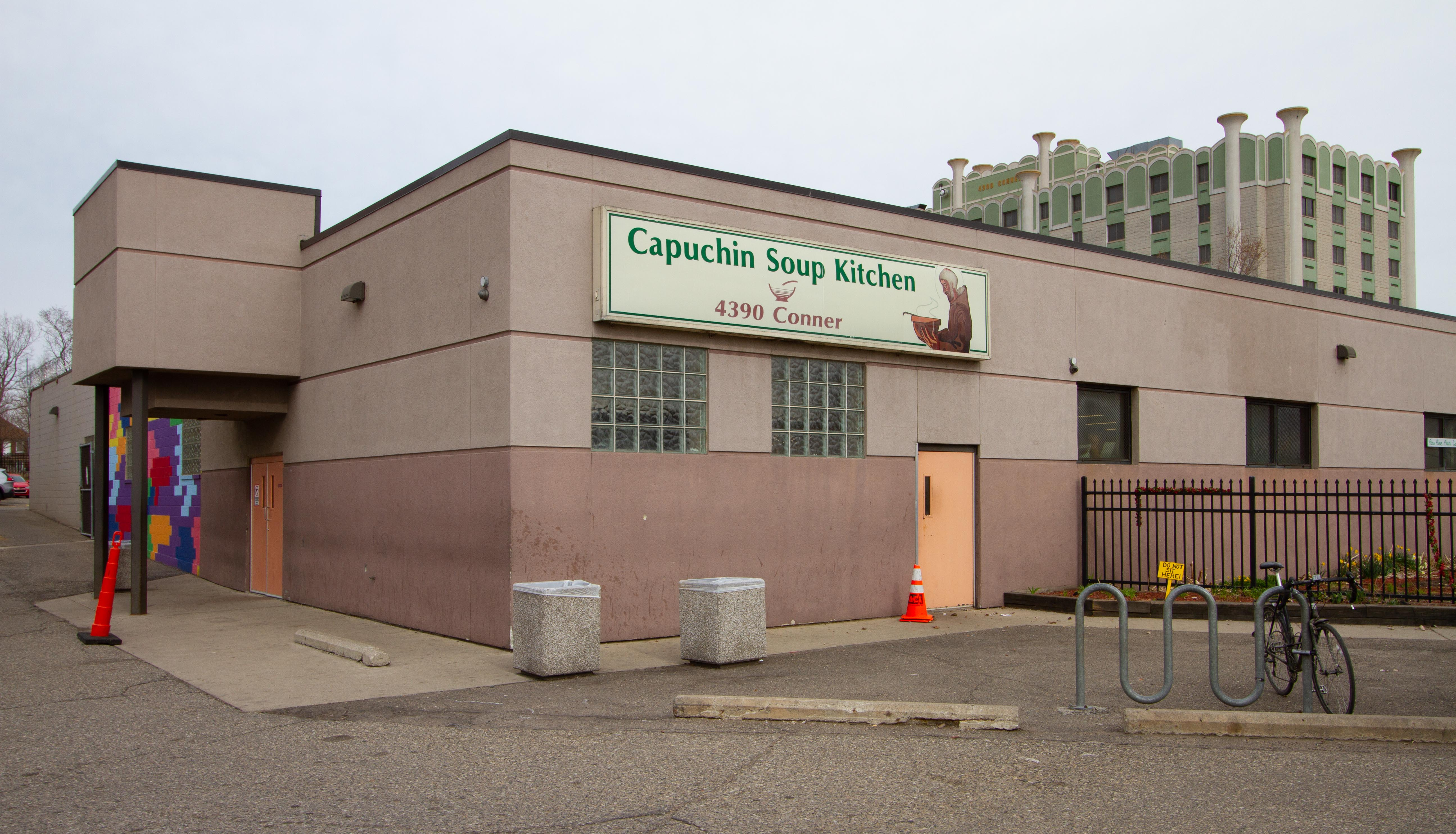 The Capuchin Soup Kitchen Conner meal site serves breakfast, lunch and dinner Monday through Friday, and breakfast and lunch on Saturdays. It is home to the Capuchin Soup Kitchen's Rosa Parks Children's and Youth art therapy and tutoring program.